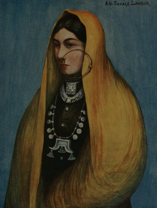 1905 illustration of a Nepalese woman.